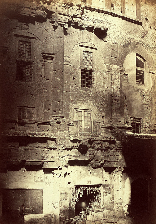 Robert MacPherson (1811-1872) - Rome - The Theatre of Marcellus, from the Piazza Montanara, circa 1858. Catalogue # 163.